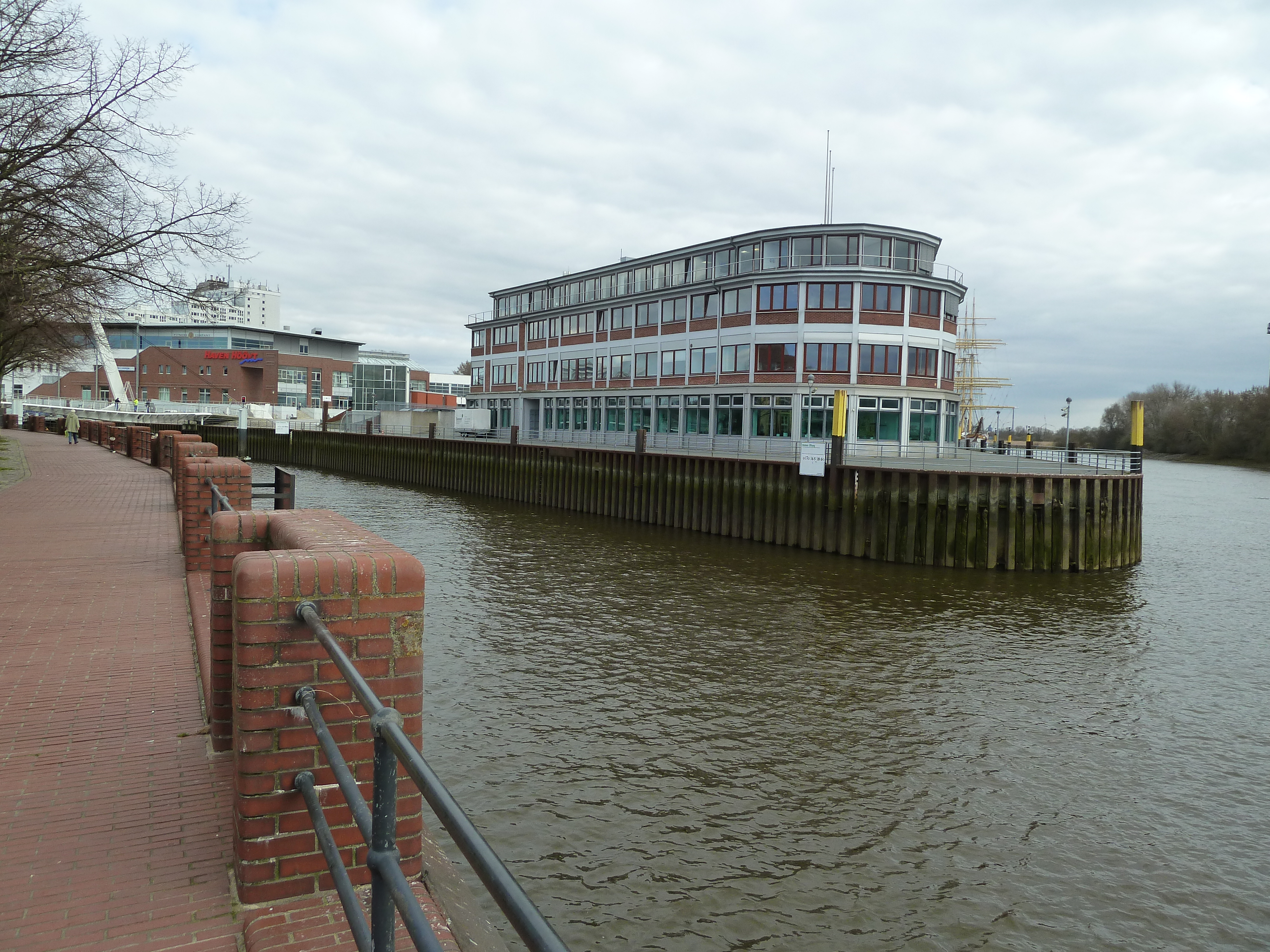 Vegesack harbour - entrance